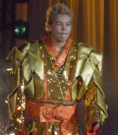 Japanese professional wrestler,Shinobu Kandori. 21 Aug 2011 OZ Academy Yokohama Cultural Gymnasium.